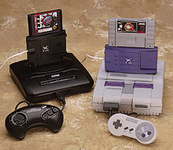 Both Genesis / MegaDrive and Super Nintendo Xband modems